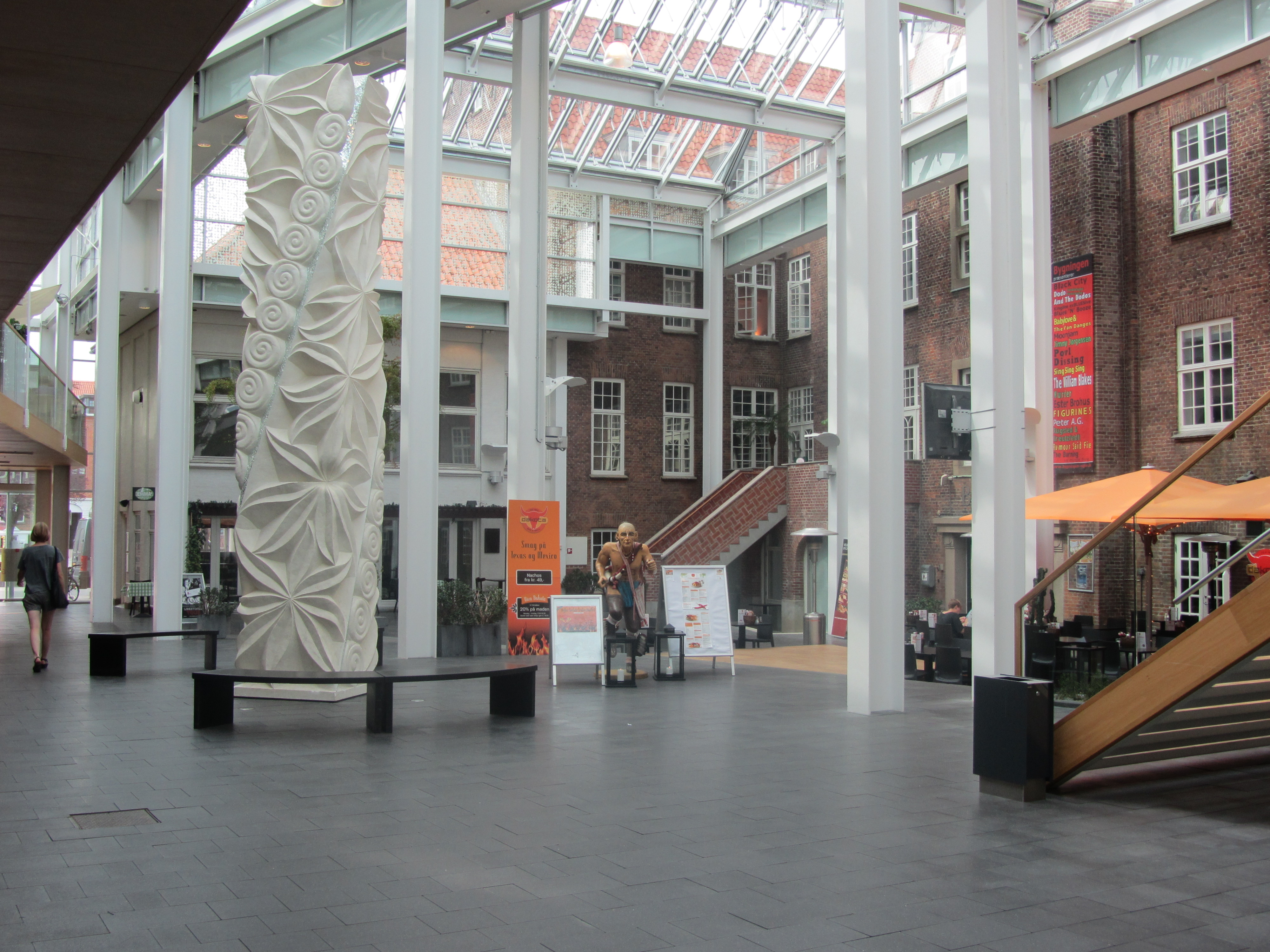 Mary's shoppingcentre in Vejle, Denmark